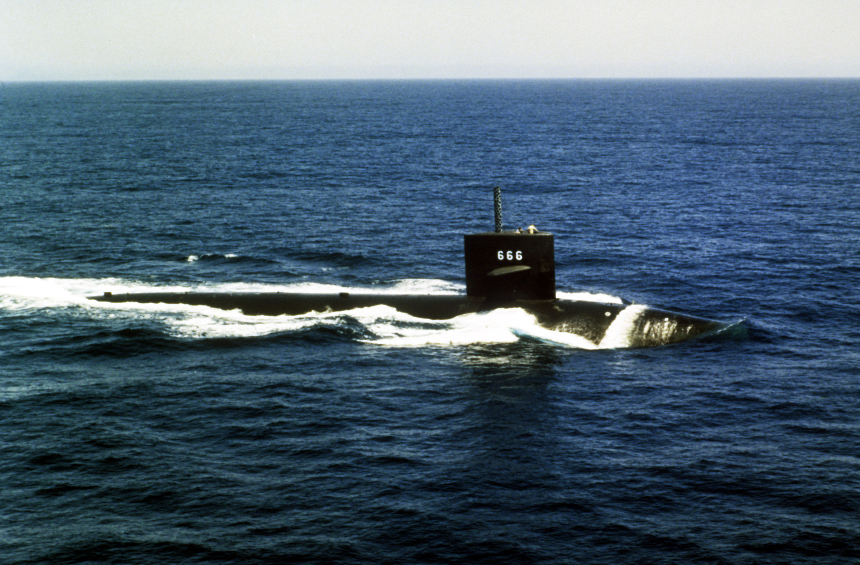 A starboard view of the nuclear-powered attack submarine USS HAWKBILL (SSN-666) underway off the coast of Southern California.